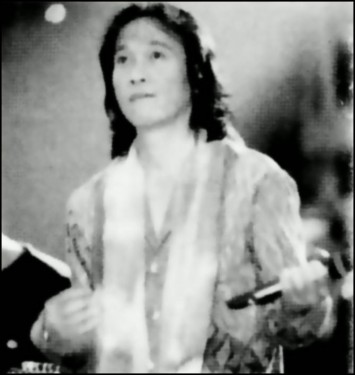 Portrait of Chrisye, an Indonesian pop singer and songwriter.